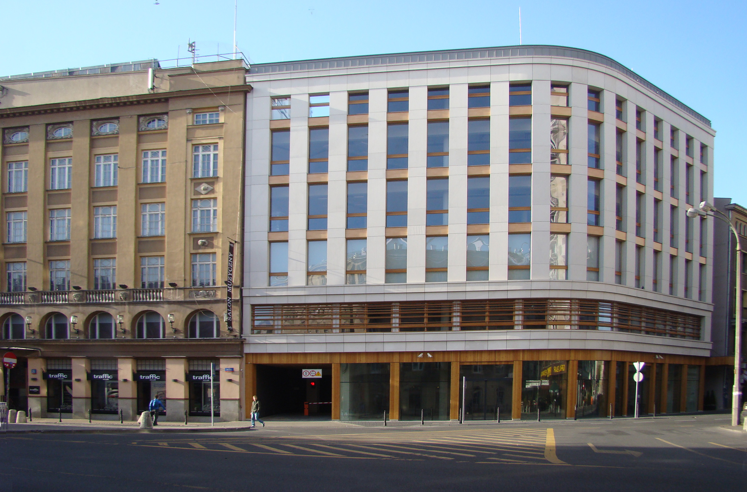 New Jabłkowski brothers building, Warsaw